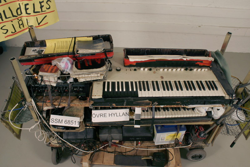 FÖREMÅLEnmansorkester. KärranSSM_68511_1Stadsmuseet i Stockholm